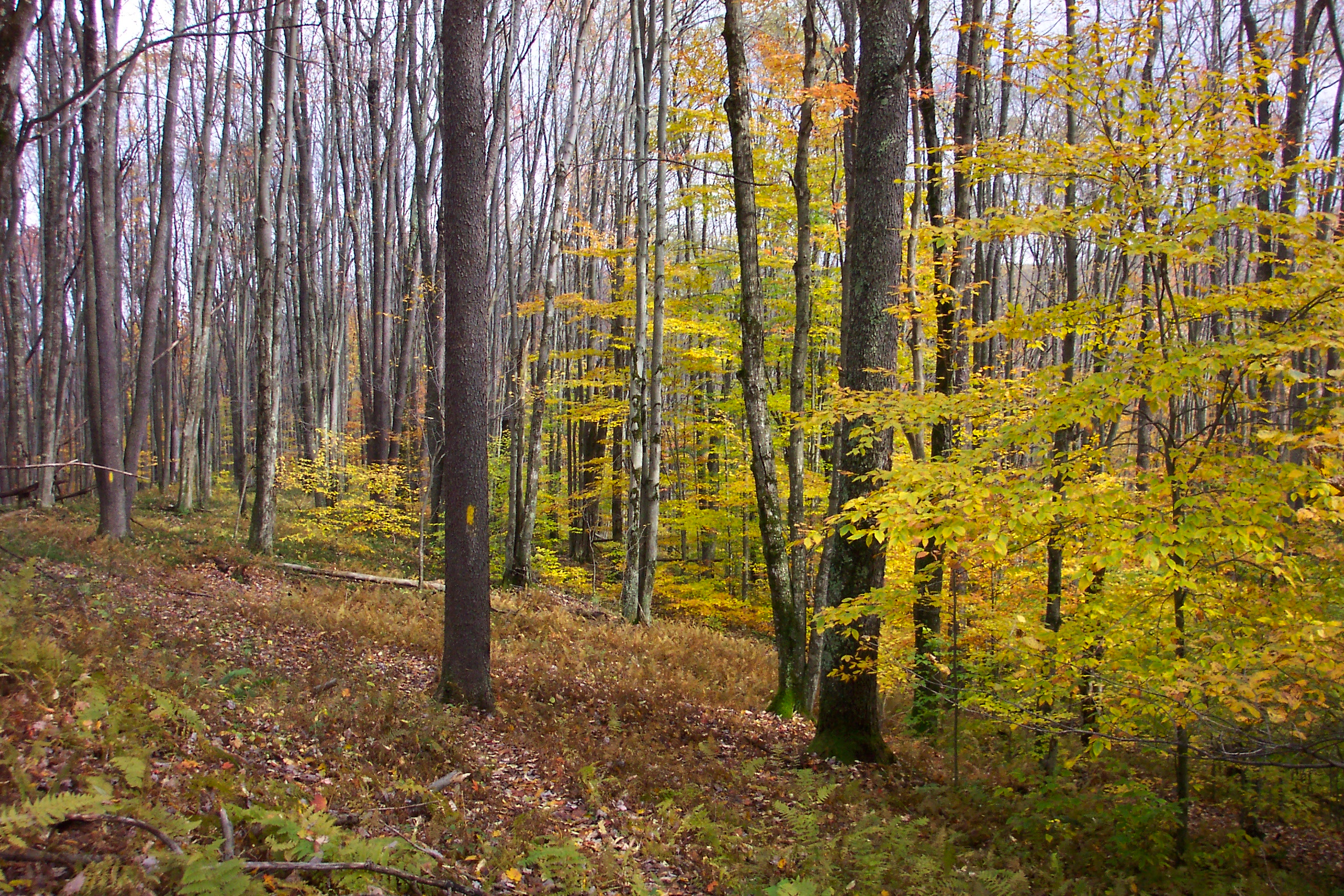 Fall colors in forest in Randolph County, West Virginia.